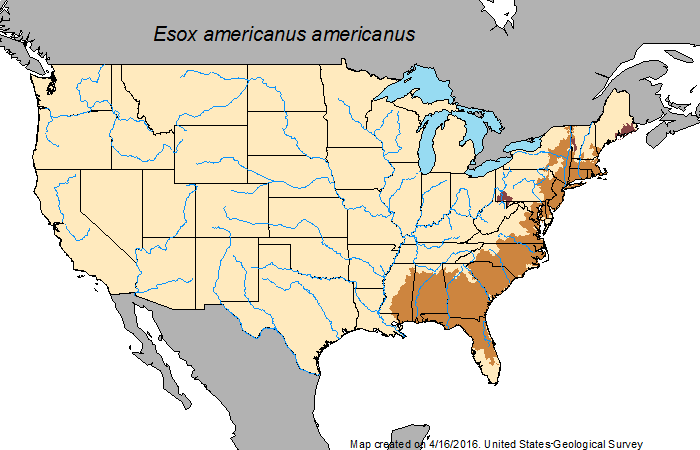 This map represents the American distribution of Esox americanus americanus.